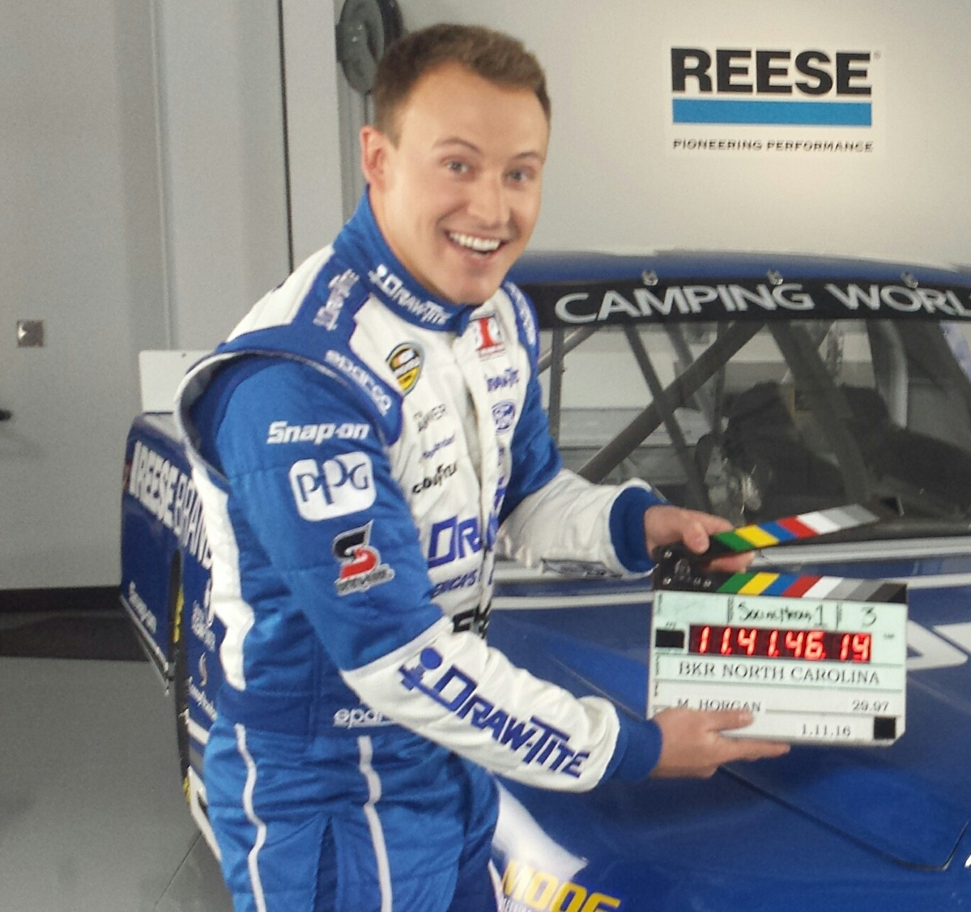 Hemric works the slate between takes at his first Brad Keselowski Racing production day at the Statesville, NC shop.